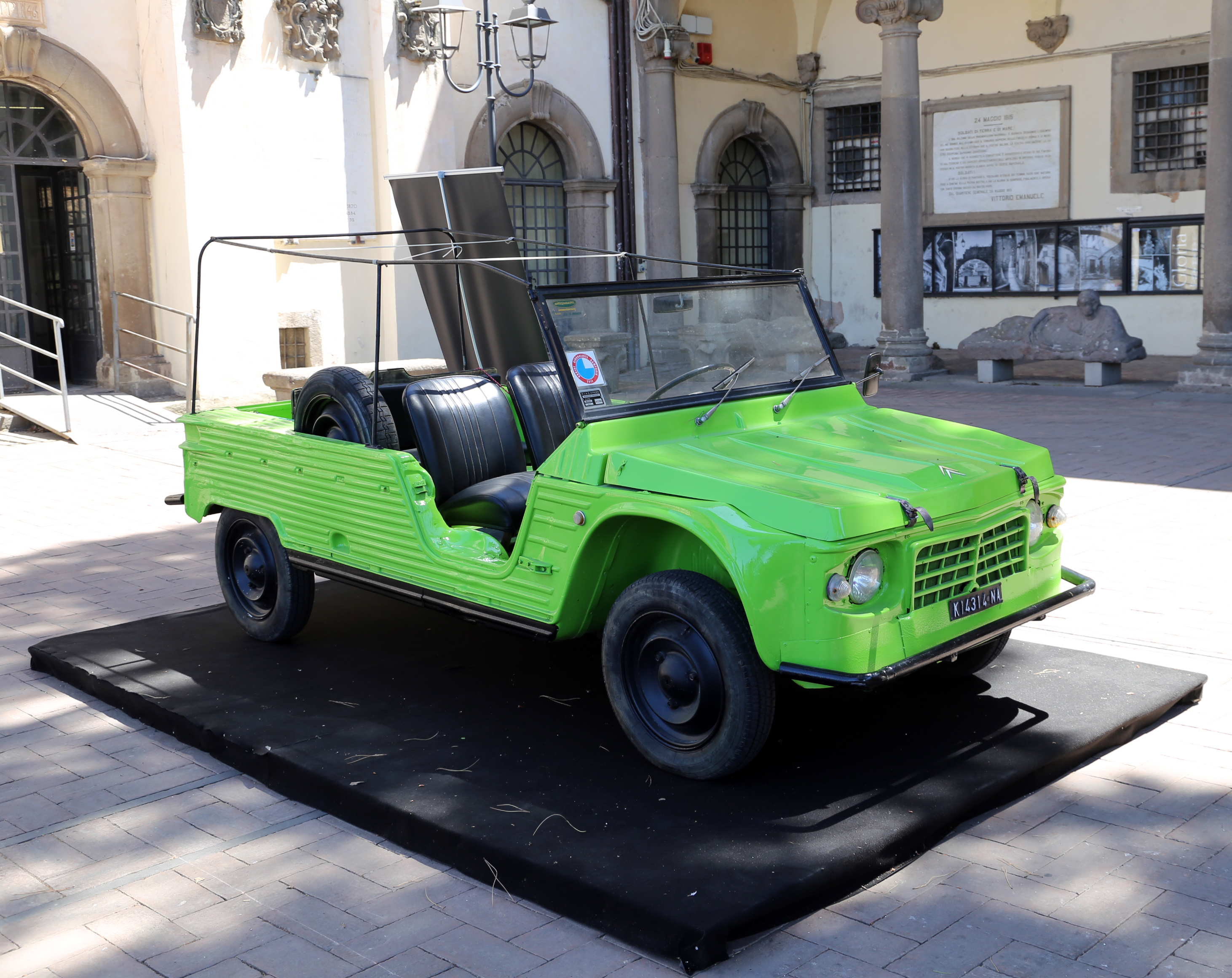 Palazzo dei Priori (Viterbo)